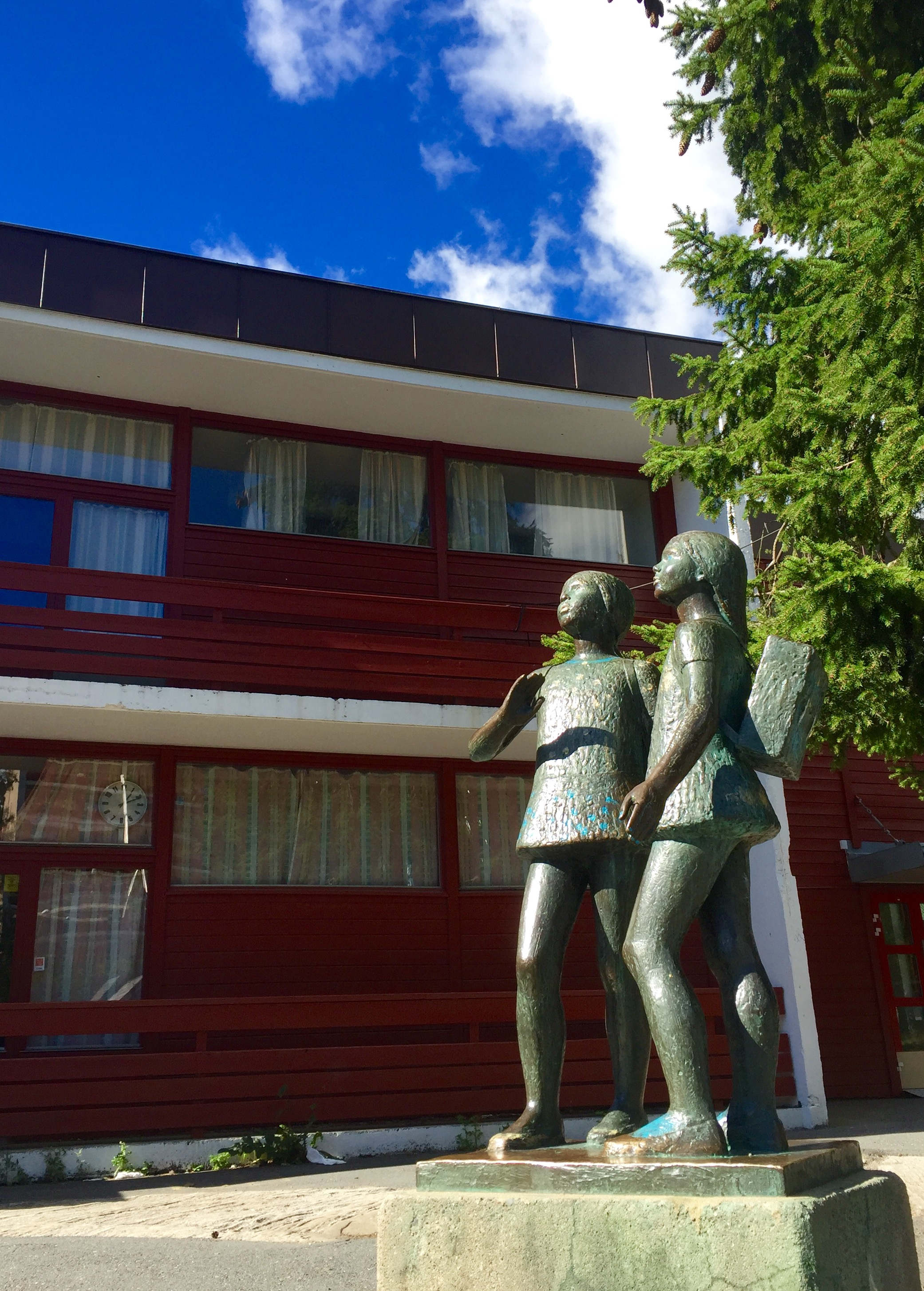 Statue by Solveyg W. Schafferer at Vestli skole, Oslo